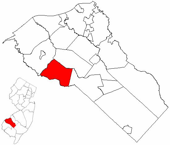 Map of Gloucester County highlighting South Harrison Township